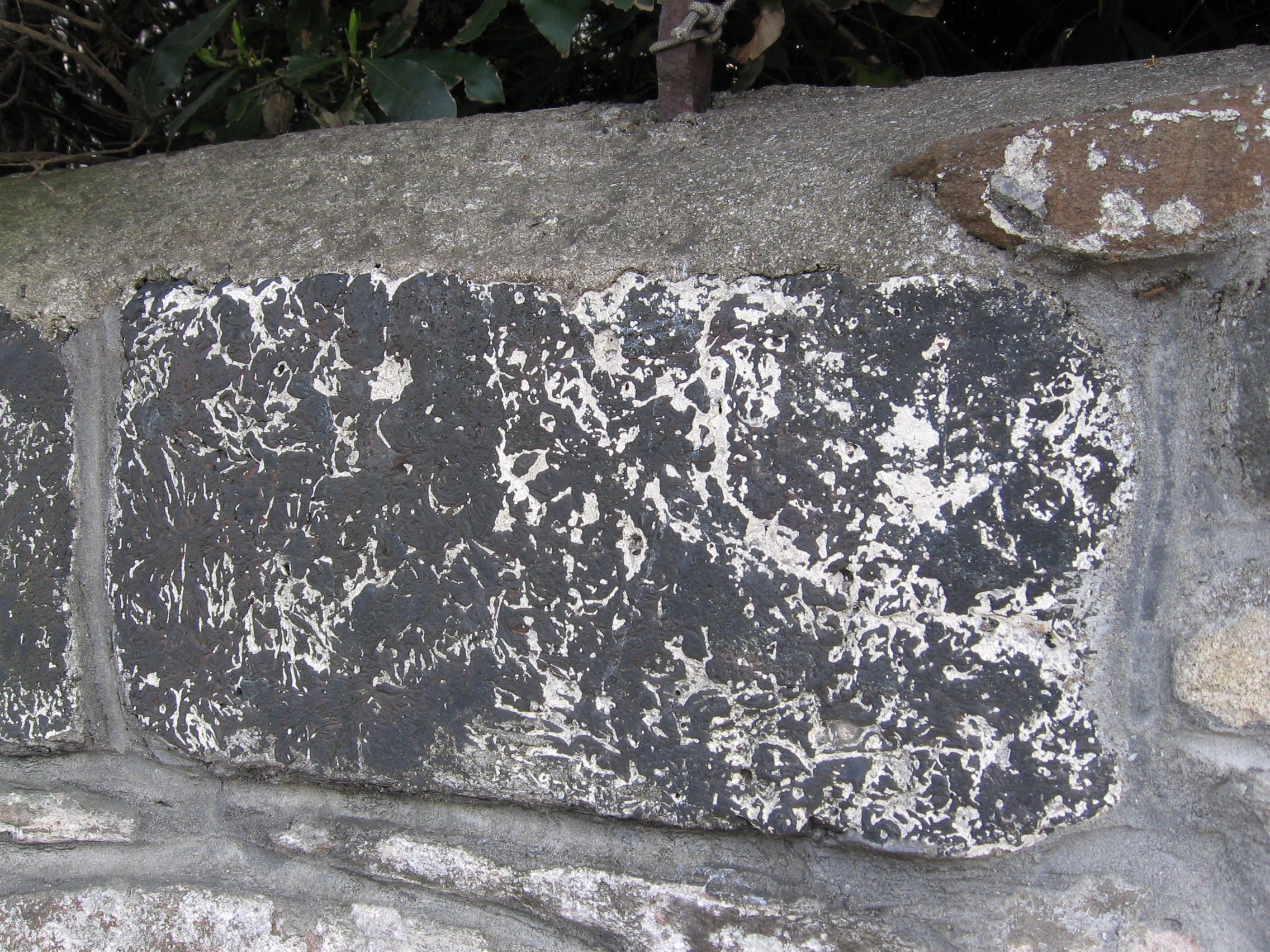 Brass slag block in the boundary wall of the Greek Orthodox church of SS Peter and Paul, Lower Ashley Road, Bristol, England